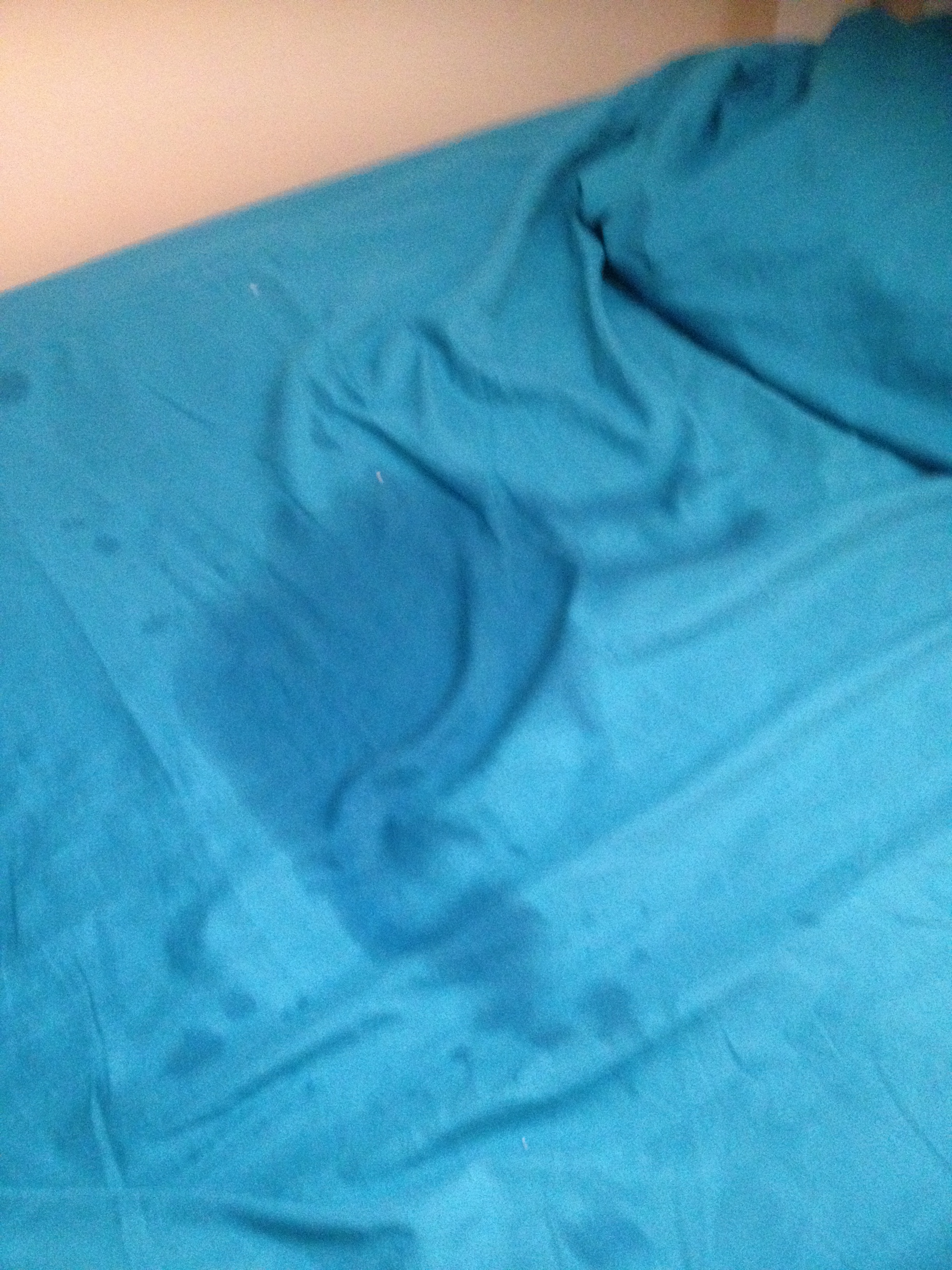 Morning evidence of a night time "accident"